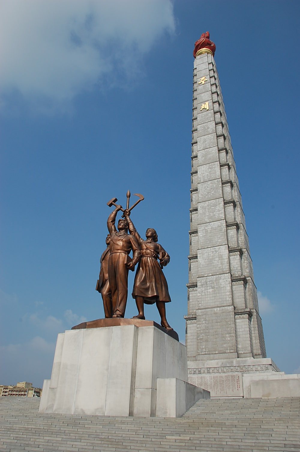 Juche Tower. Pyongyang, North Korea.